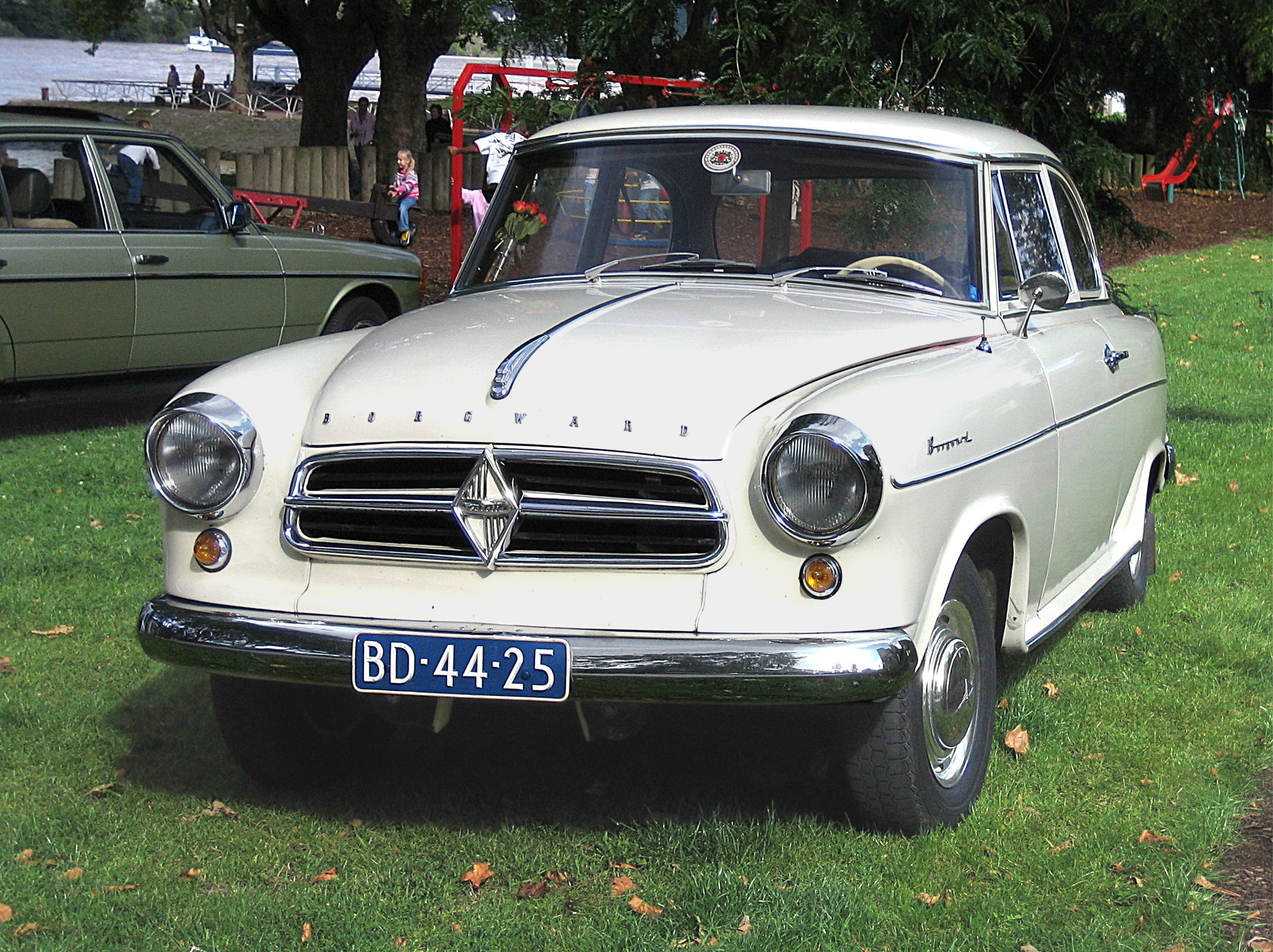 Borgward Isabella (built around 1960)